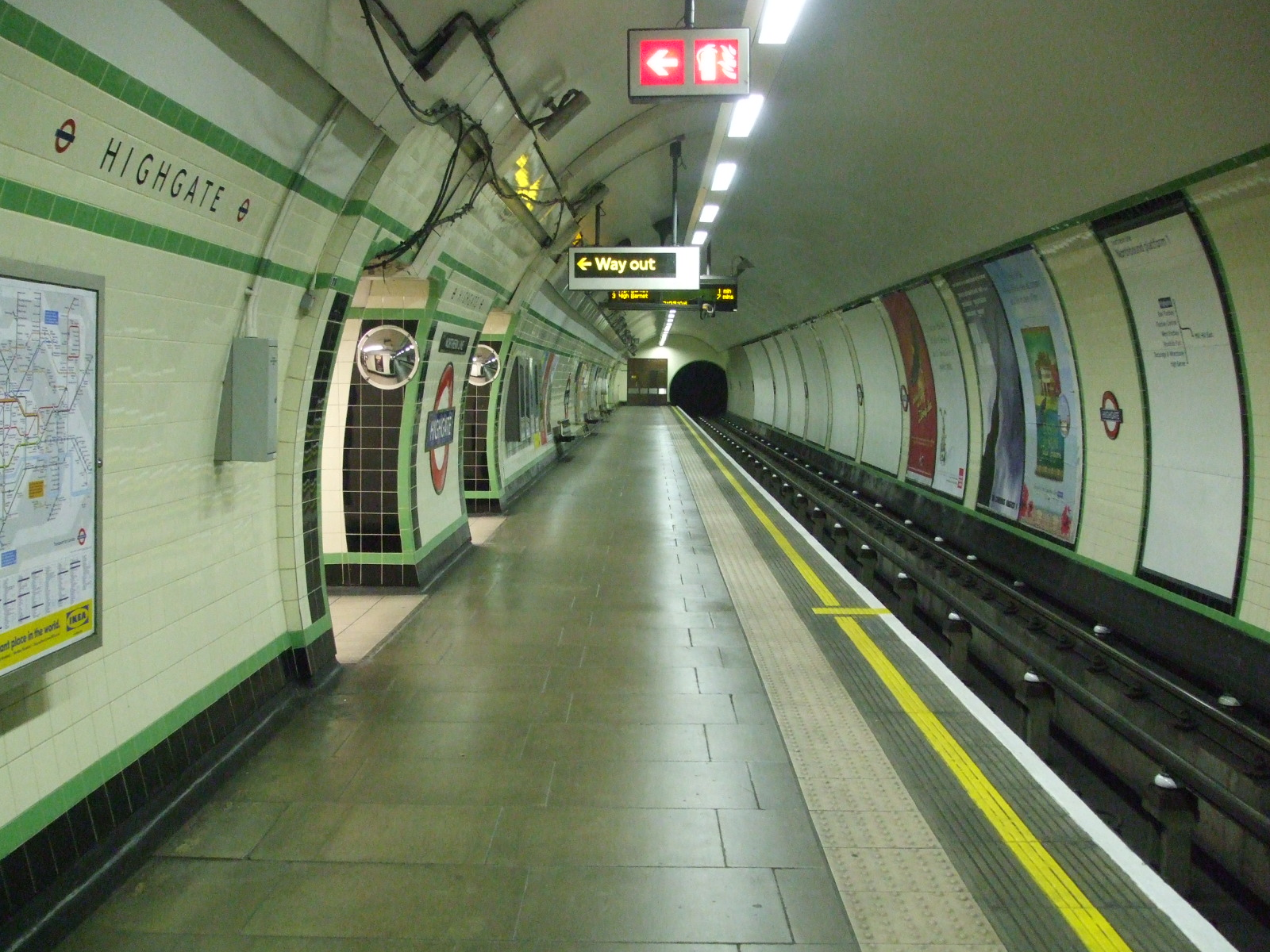 Highgate tube station northbound platform looking south